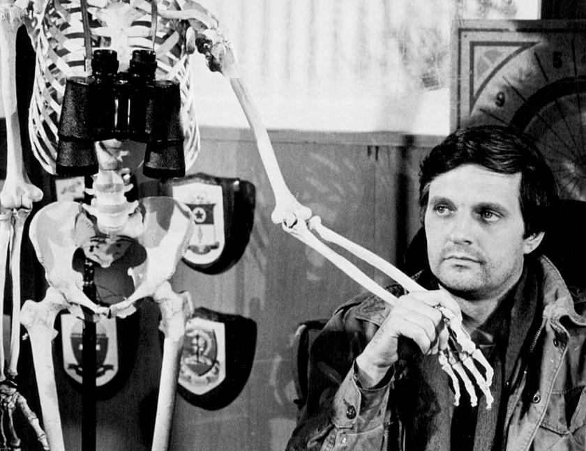 Photo of Alan Alda as Hawkeye from the television series M*A*S*H. This episode is "Divided We Stand". The item has no copyright markings on it as can be seen in the links above.